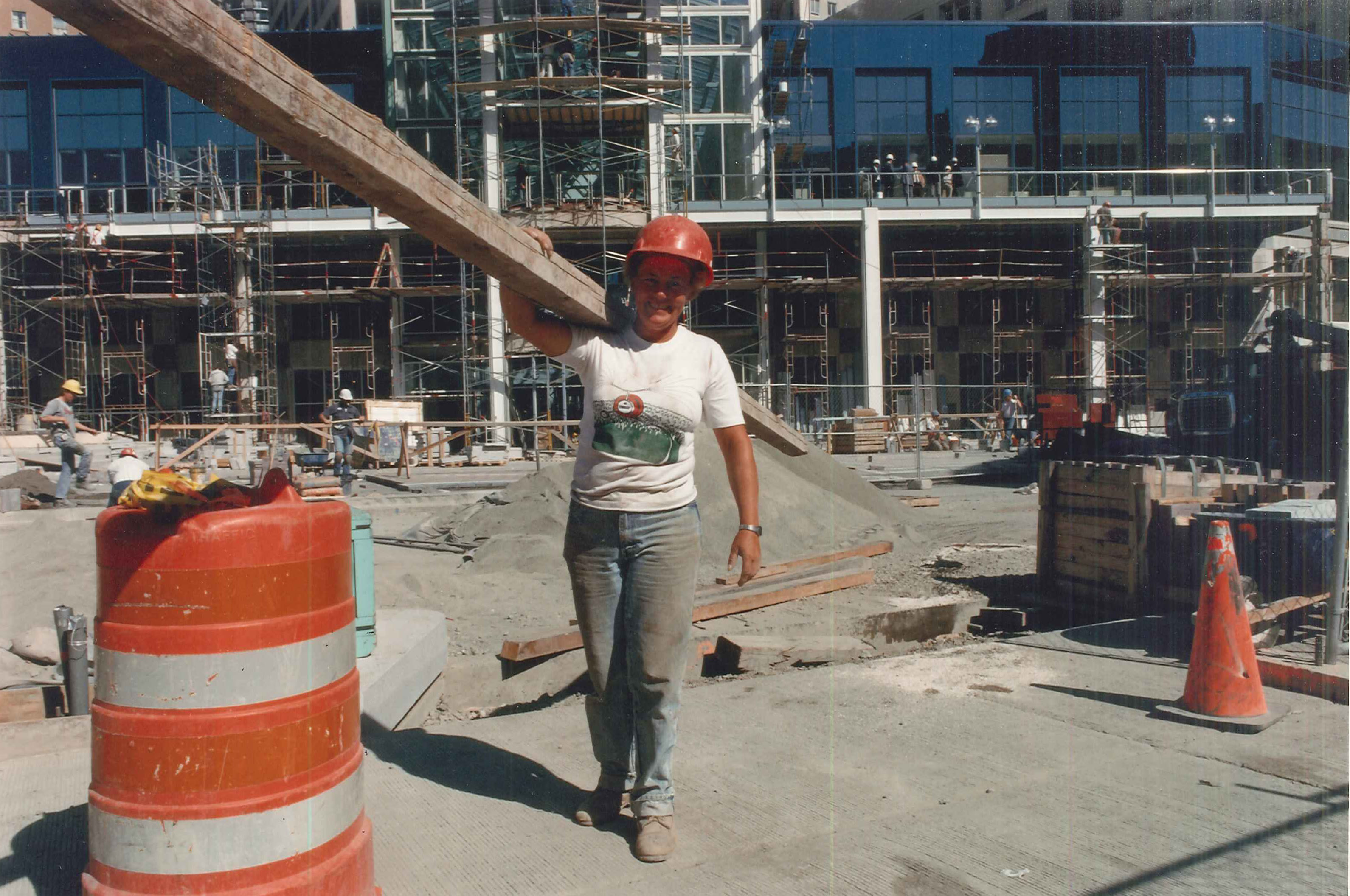 Female construction worker, at Westlake Center, Seattle, Washington, 1988. Found in folder “Visual Materials – Westlake Development Photographic Documentation, 1987-1988," Westlake Mall Project Records (Record Series 1612-07), Seattle Municipal Archives.